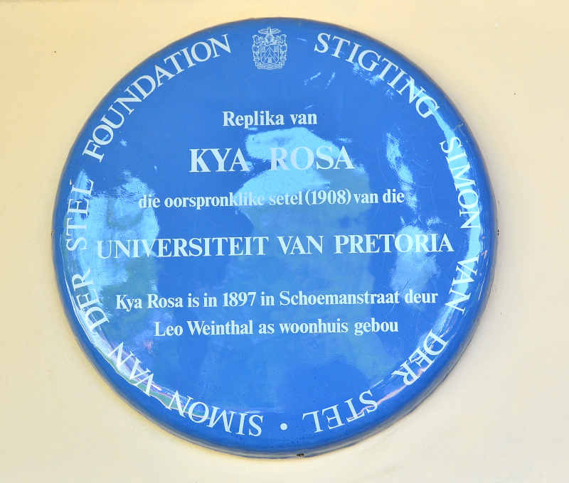 Relpica of KYA ROSA, the original seat (1908) of the UNIVERSITY OF PRETORIA. Kya Rosa was built as the residence of Leo Weinthal in 1897, in Schoeman Street